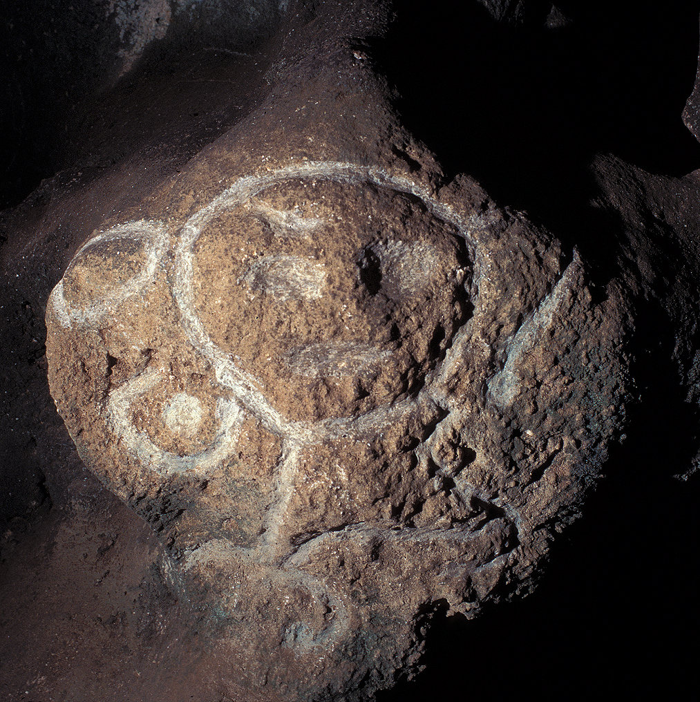 Photo by Dave Bunnell of Taino petroglyphsFound in a cave in Puerto Rico. The Taino inhabited the island before the arrival of Europeans.